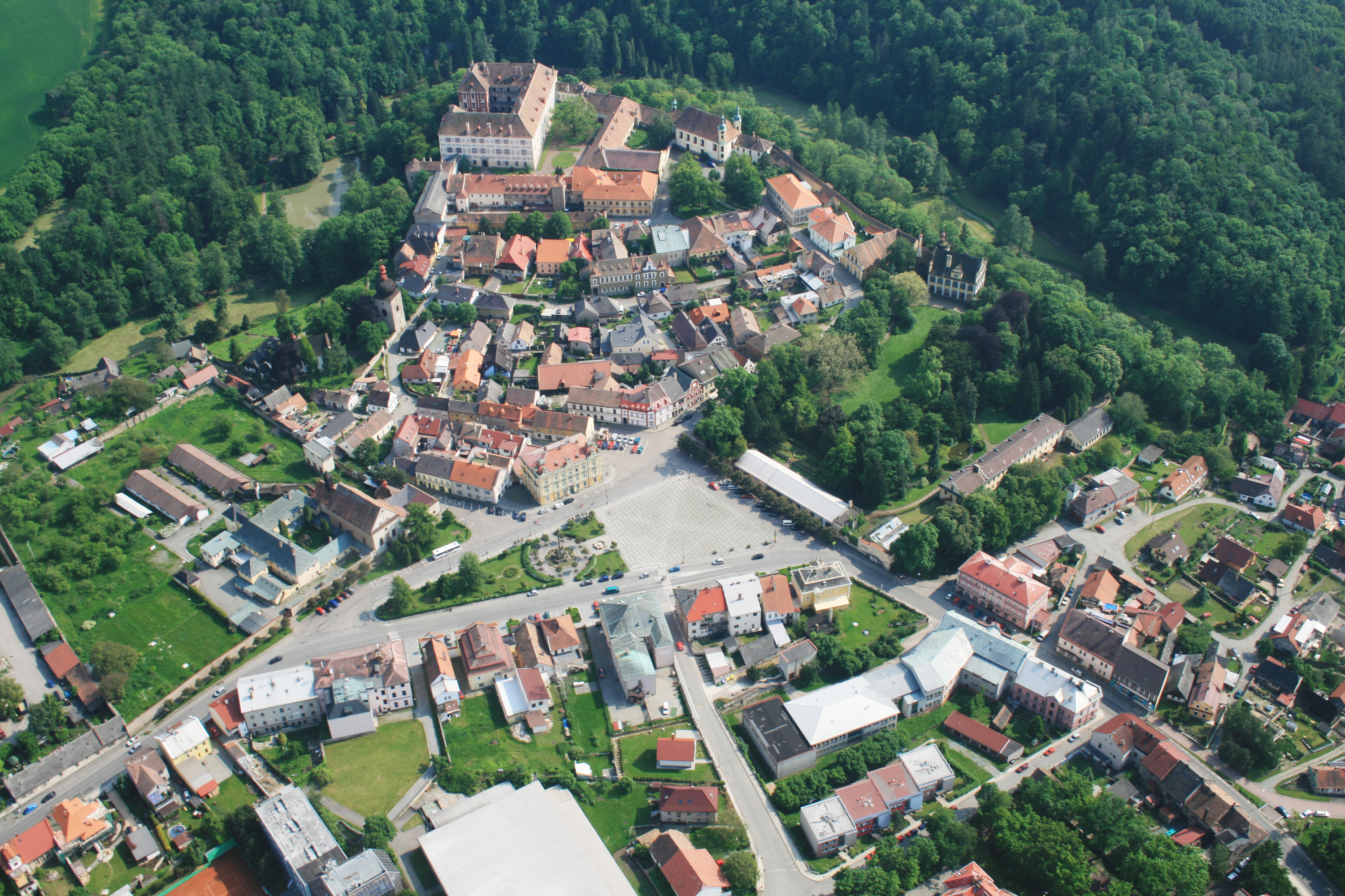 Opočno castle and centrum of Opočno town from air, eastern Bohemia, Czech Republic